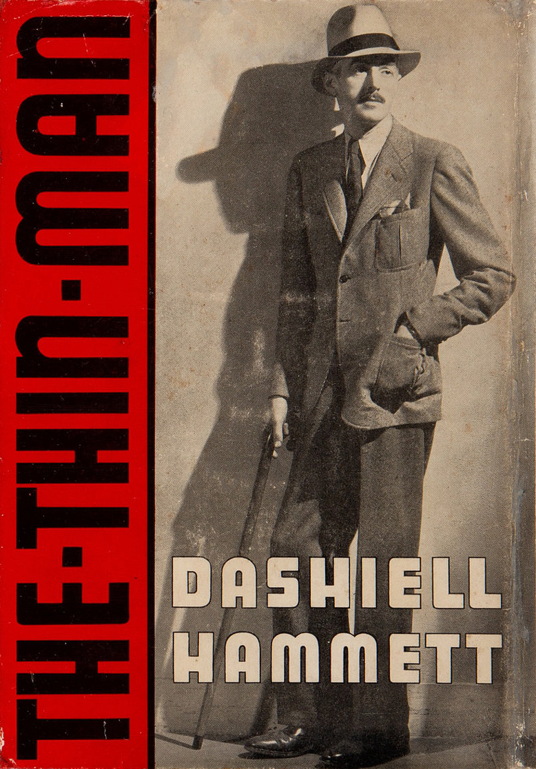 First-edition dust jacket of American author Dashiell Hammett's fifth and final novel, The Thin Man. A photo of Hammett himself appears on the book's cover. This is the red variant of the first edition, but there is also a green design.